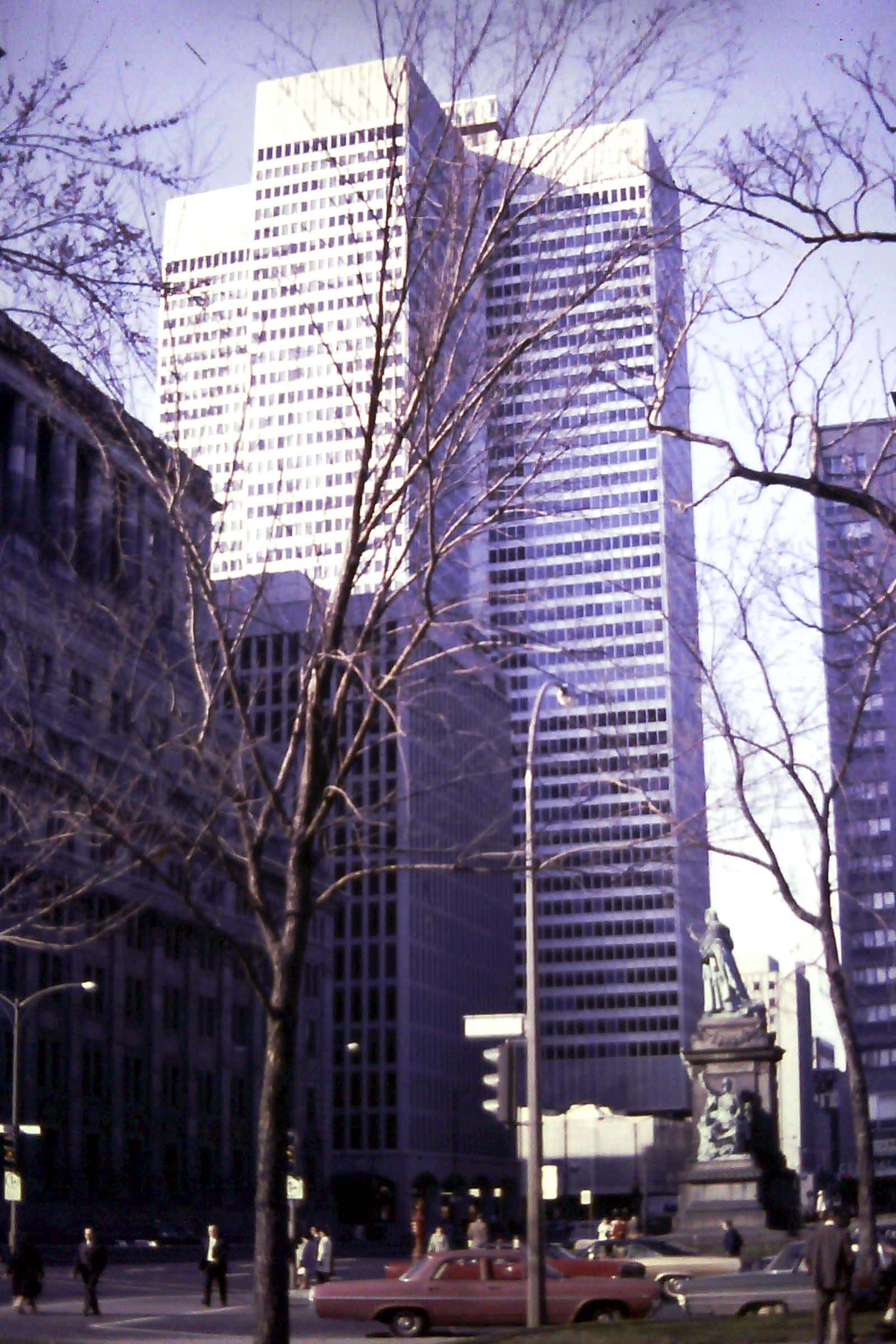 Place Ville Marie in 1967. Montreal, Quebec, Canada.